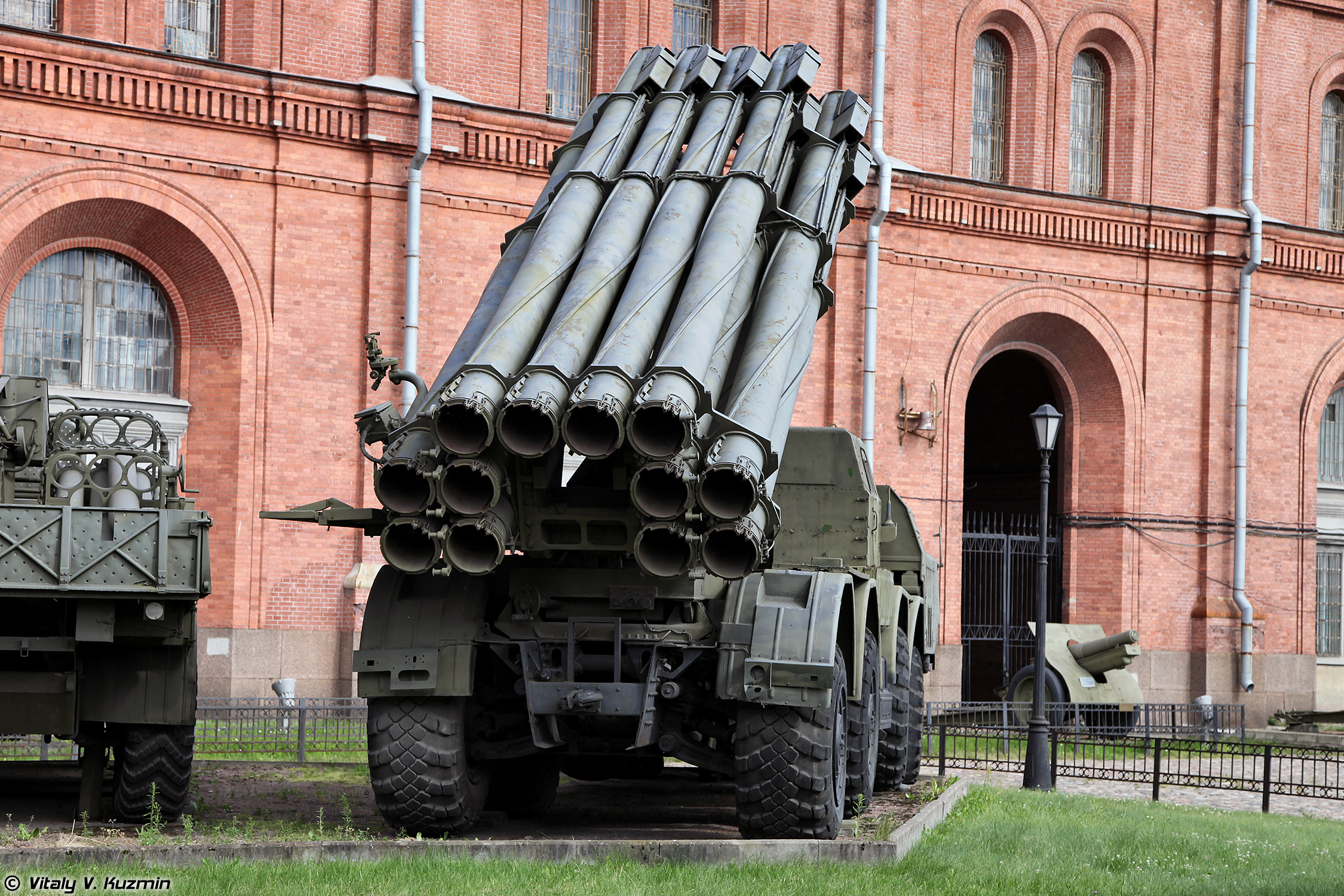 9A52 combat vehicle 9K58 Smerch MLRS